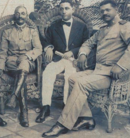 Philippine Constabulary Band director Walter Loving pictured at far right in 1908